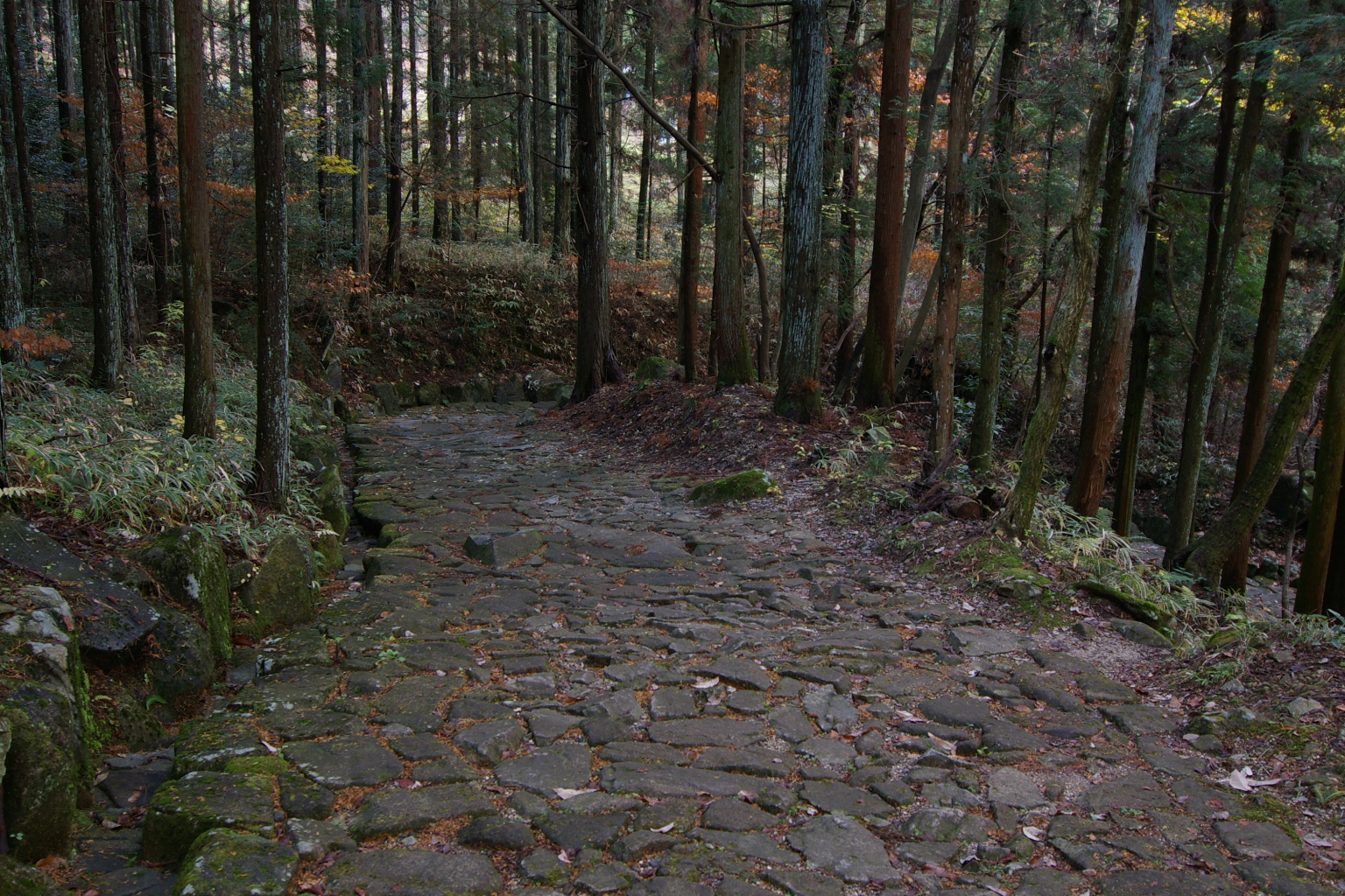 Stone Road in Ochiai, Nakasendo (Nakatsugawa City, Gifu Pref., Japan)